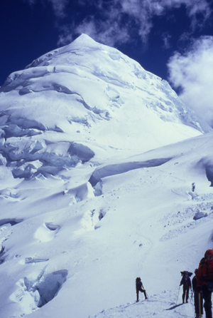 I took this picture myself and am happy for it to be used freely.